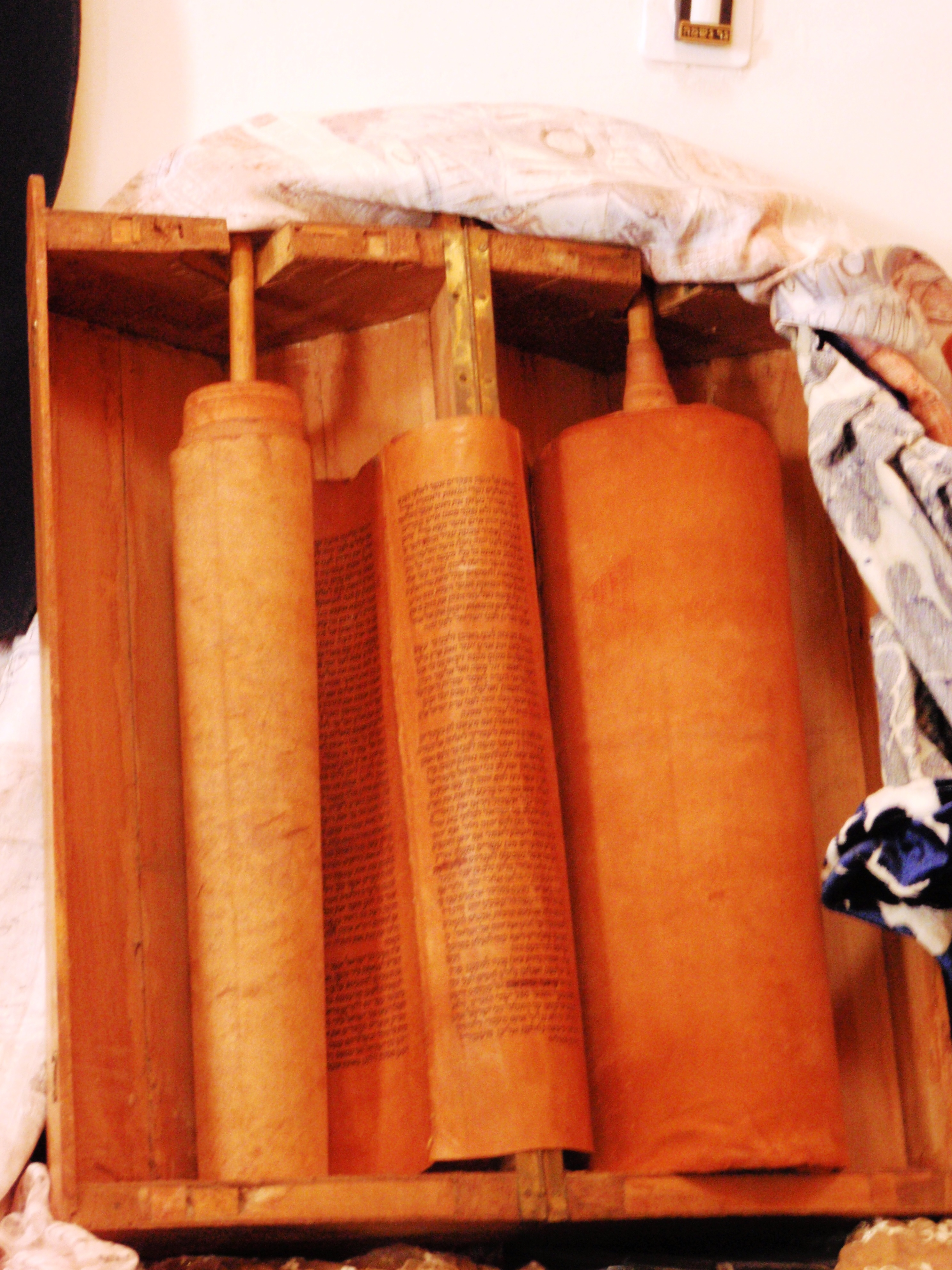 סיור בעכו Sefer Torah attributed to the Ramchal